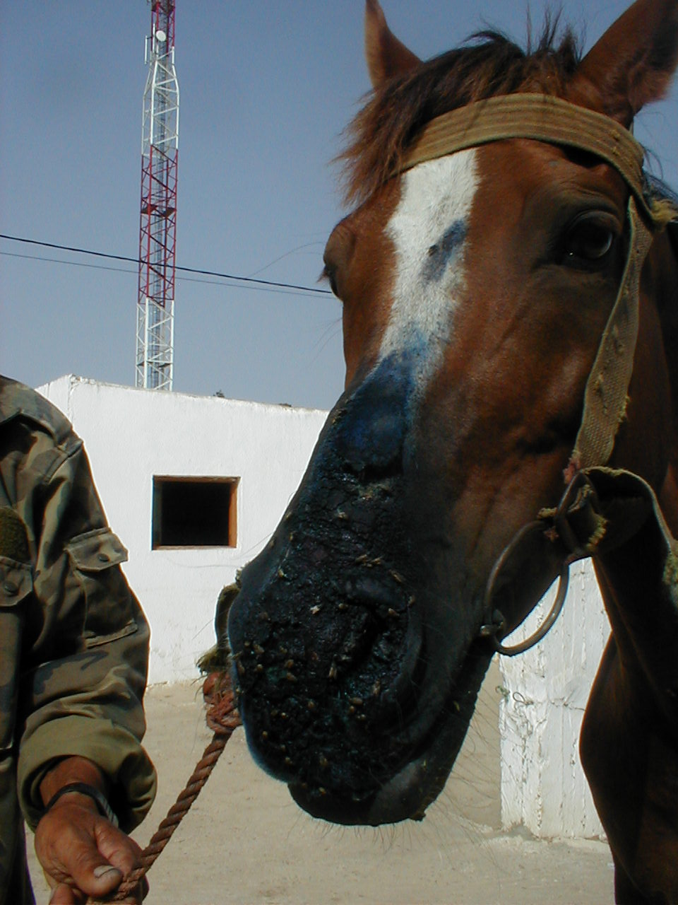 horse with lesions probably due to Habronema, treated by owner with methylen blue